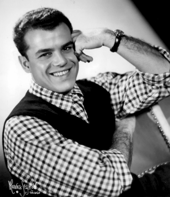 Publicity photo of singer Julius La Rosa.